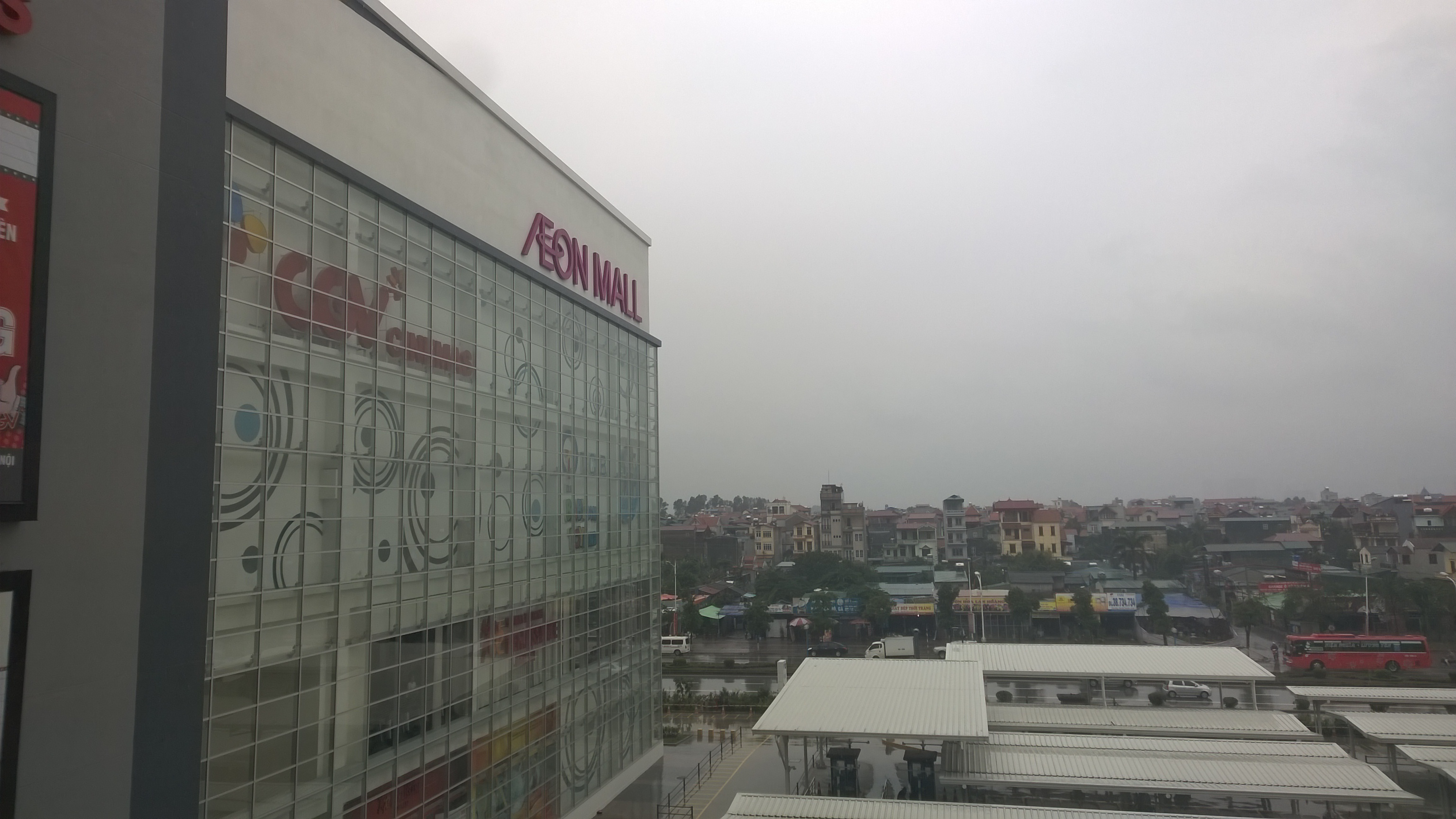 Long Bien mall view of Long Bien district in 2016.